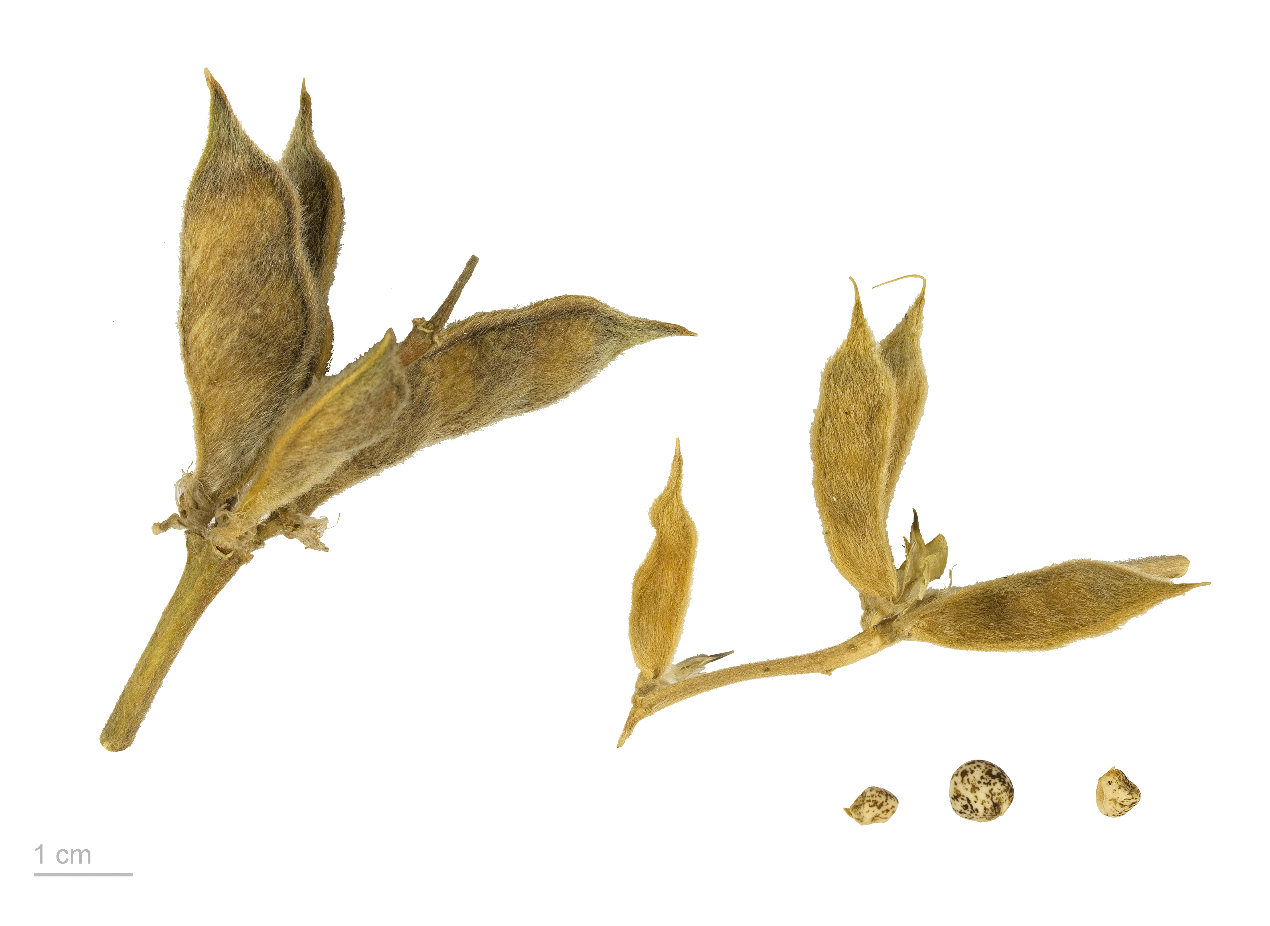 European yellow lupine, fruits and seeds